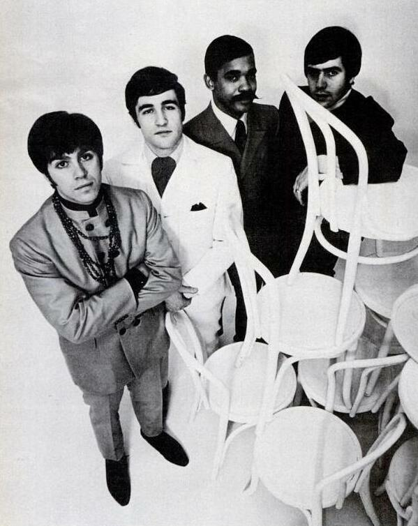 Photo of the rock group The American Breed.